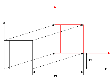 translation including the moving of the coordinate system